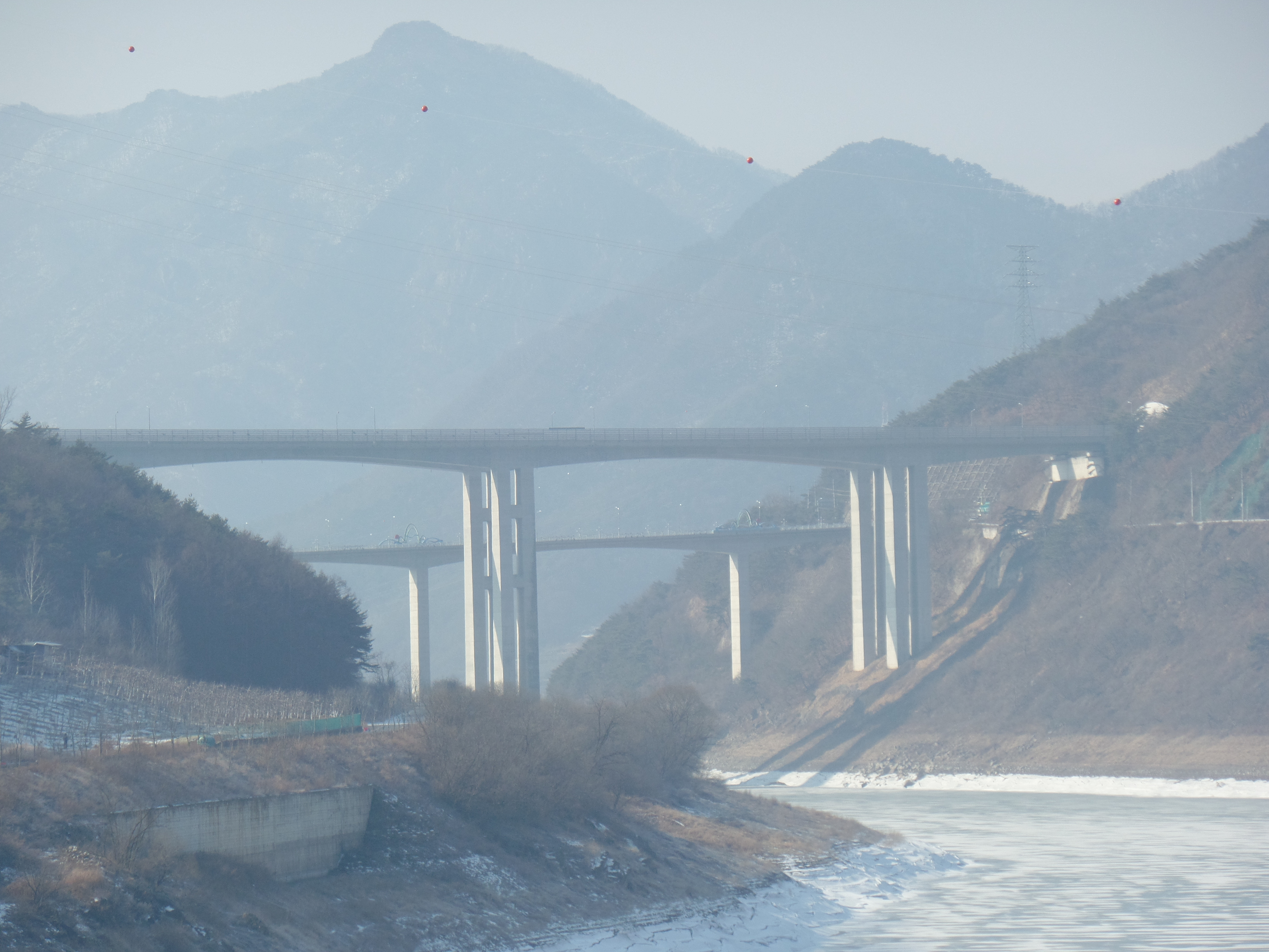 Danyang Bridge(Front) and Jeokseong Bridge(Back)